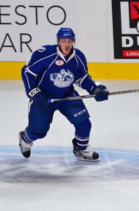 In a game between the Hamilton Bulldogs and the Syracuse Crunch at the Bell Centre of Montreal.